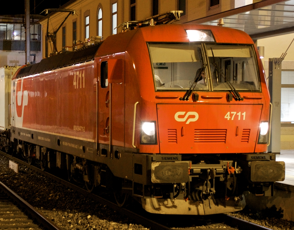 Locomotive 4711 of the Portuguese Railways, in the Vila Nova de Gaia Train Station, in Portugal.